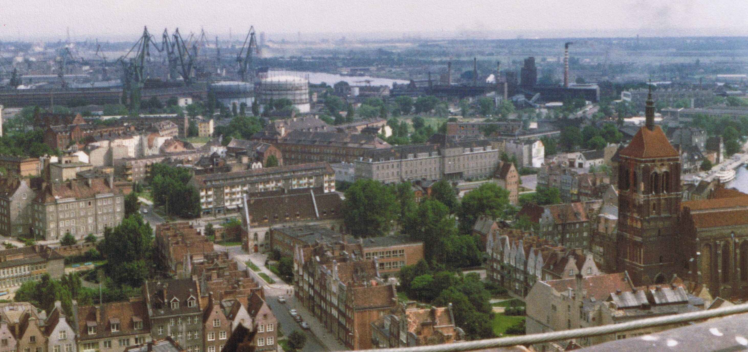 Panorama of Gdansk in Poland 1982